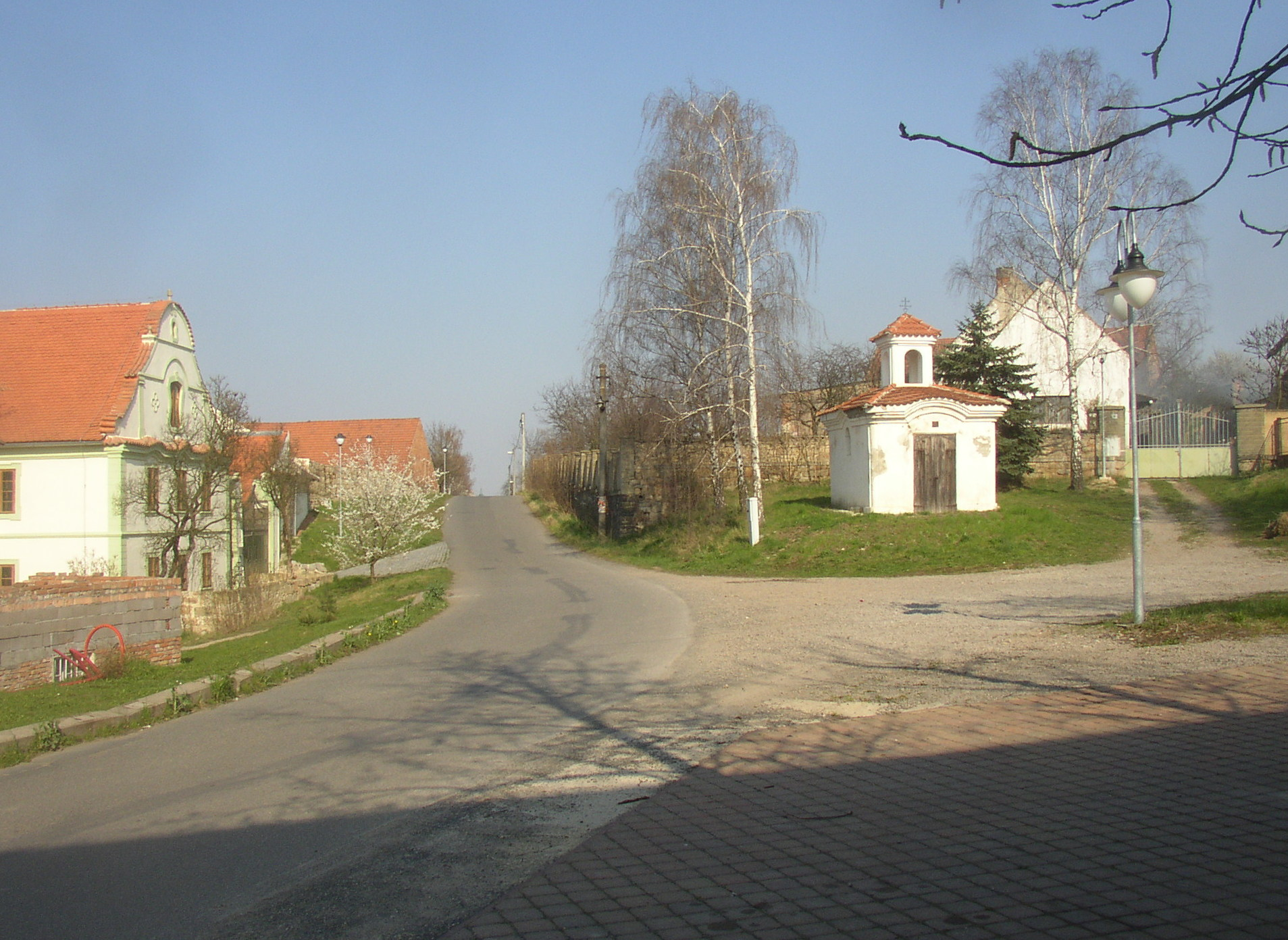 Saky (a part of Třebichovice municipality), Kladno District, Czech Republic. Village square as seen from the west, with house No 7 in the left and late Baroque chapel in the right. In the bakground thoroughfare towards Pchery.